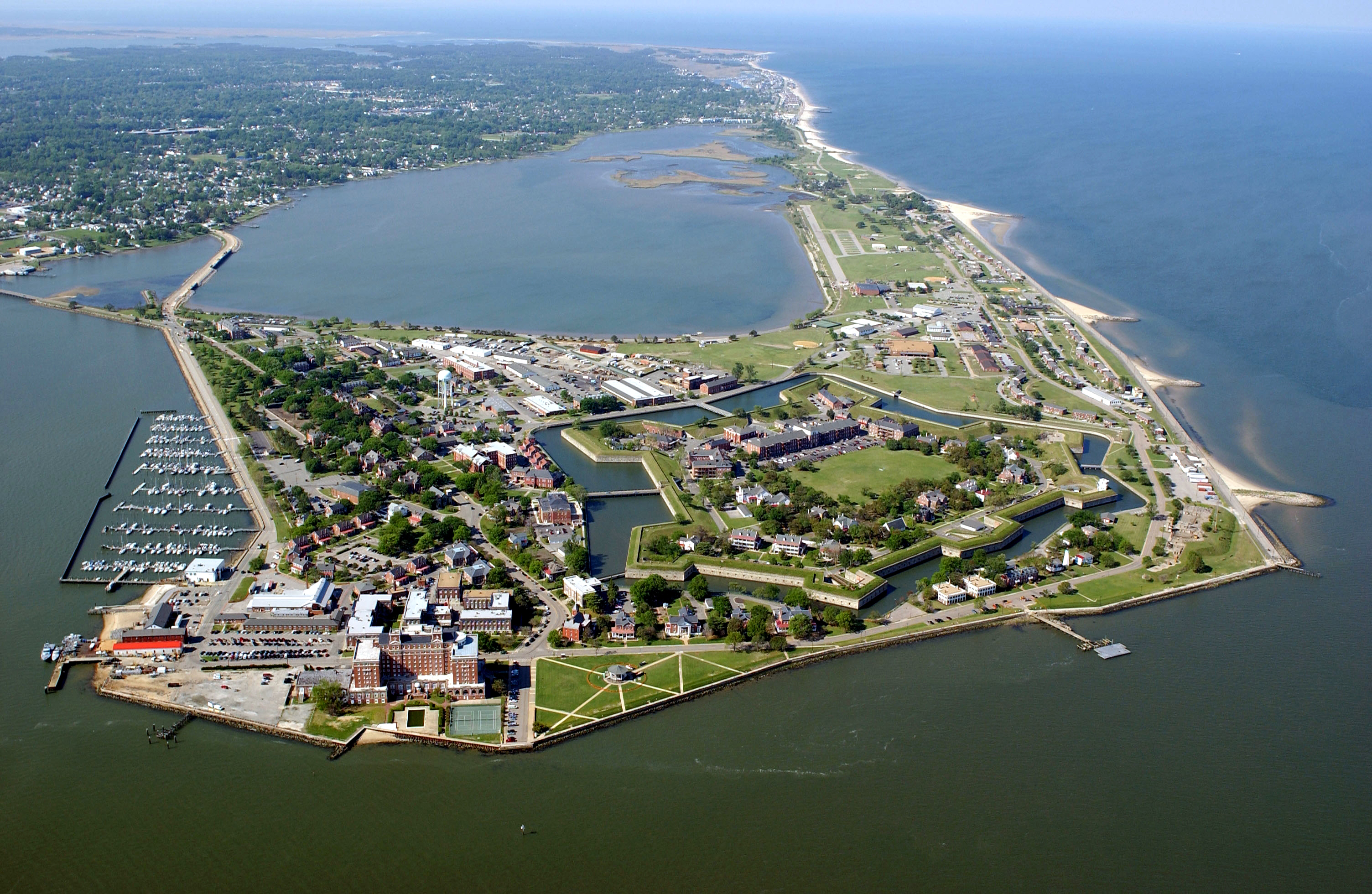 Fort Monroe, Virginia, from the Air US Army Photo